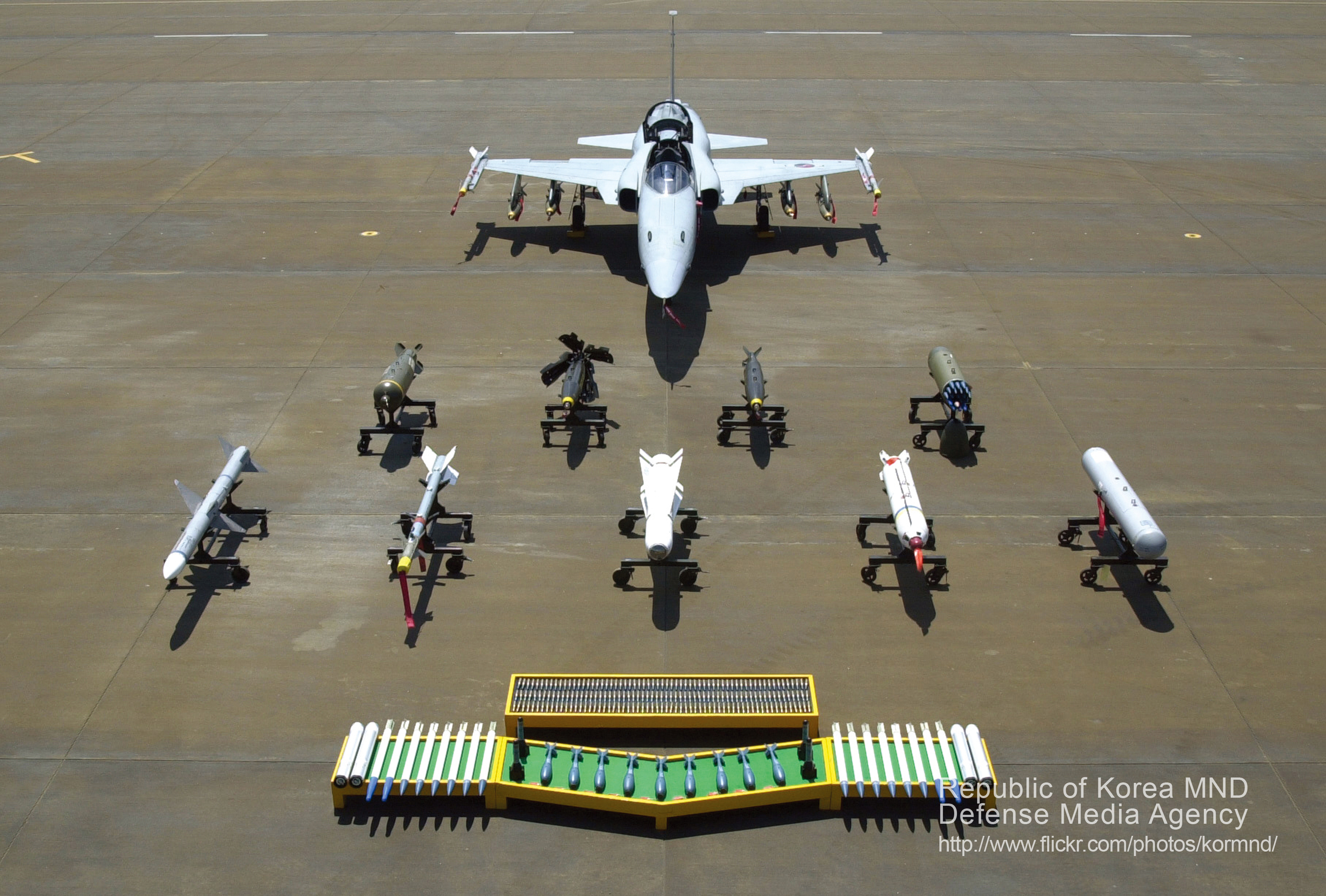 2008 국방화보 Rep. of Korea, Defense Photo Magazine F-5 전투기에 장착되는 무장전시 Weapons and equipments for F-5 Fighter